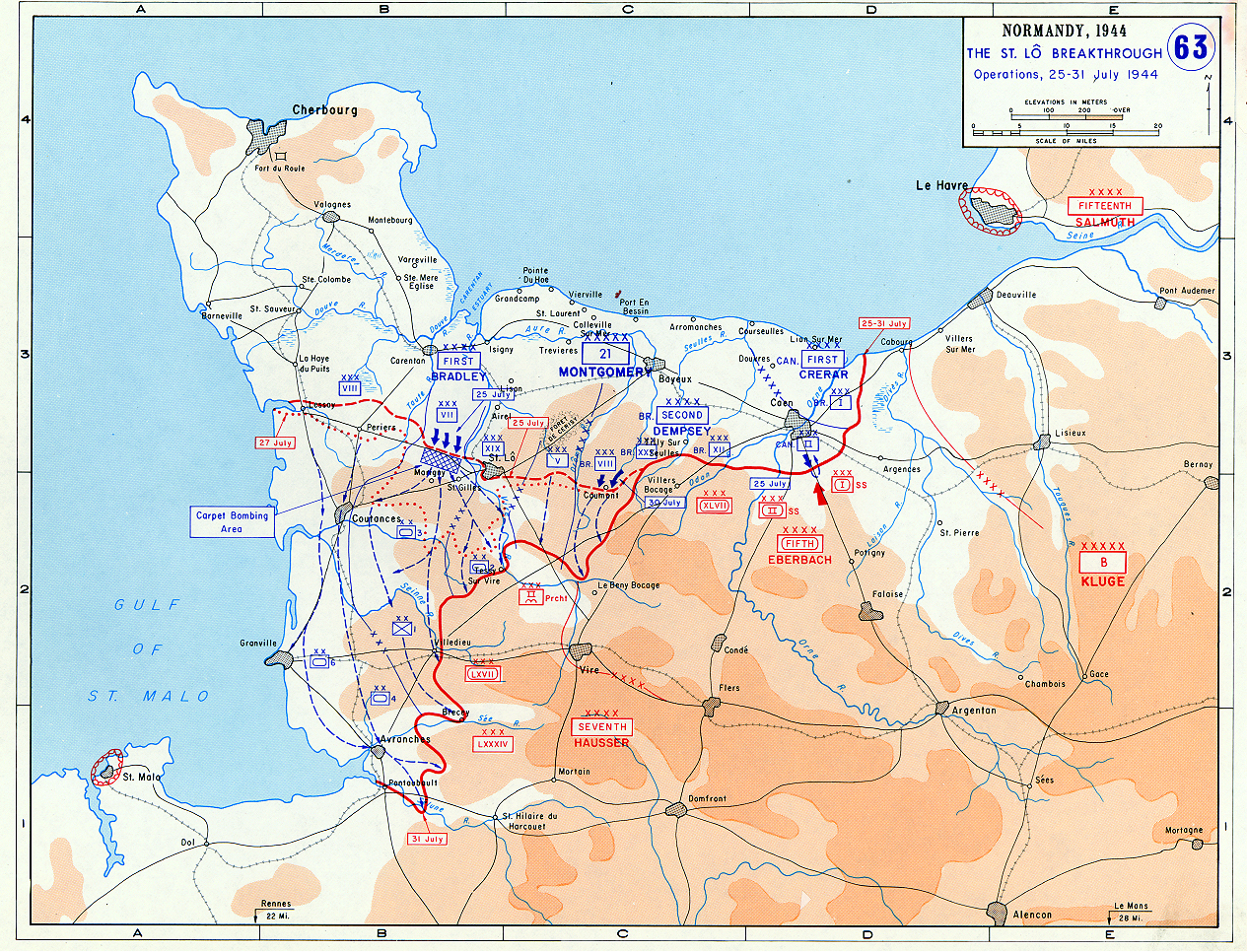 Saint Lo Breakthrough - 25-31 July 1944. Background information: In 1938 the predecessors of what is today The Department of History at the United States Military Academy began developing a series of campaign atlases to aid in teaching cadets a course entitled, "History of the Military Art." Since then, the Department has produced over six atlases and more than one thousand maps, encompassing not only America’s wars but global conflicts as well. In keeping abreast with today's technology, the Department of History is providing these maps on the internet as part of the department's outreach program. The maps were created by the United States Military Academy’s Department of History and are the digital versions from the atlases printed by the United States Defense Printing Agency. We gratefully acknowledge the accomplishments of the department's former cartographer, Mr. Edward J. Krasnoborski, along with the works of our present cartographer, Mr. Frank Martini.